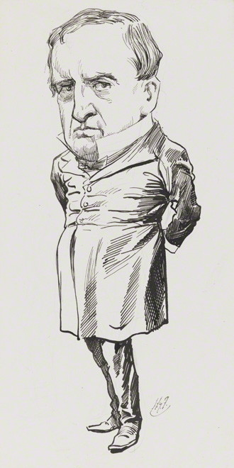 Caricature of William Nicholas Keogh MP by Harry Furniss (1854-1925), pen and ink, 1880s-1900s.